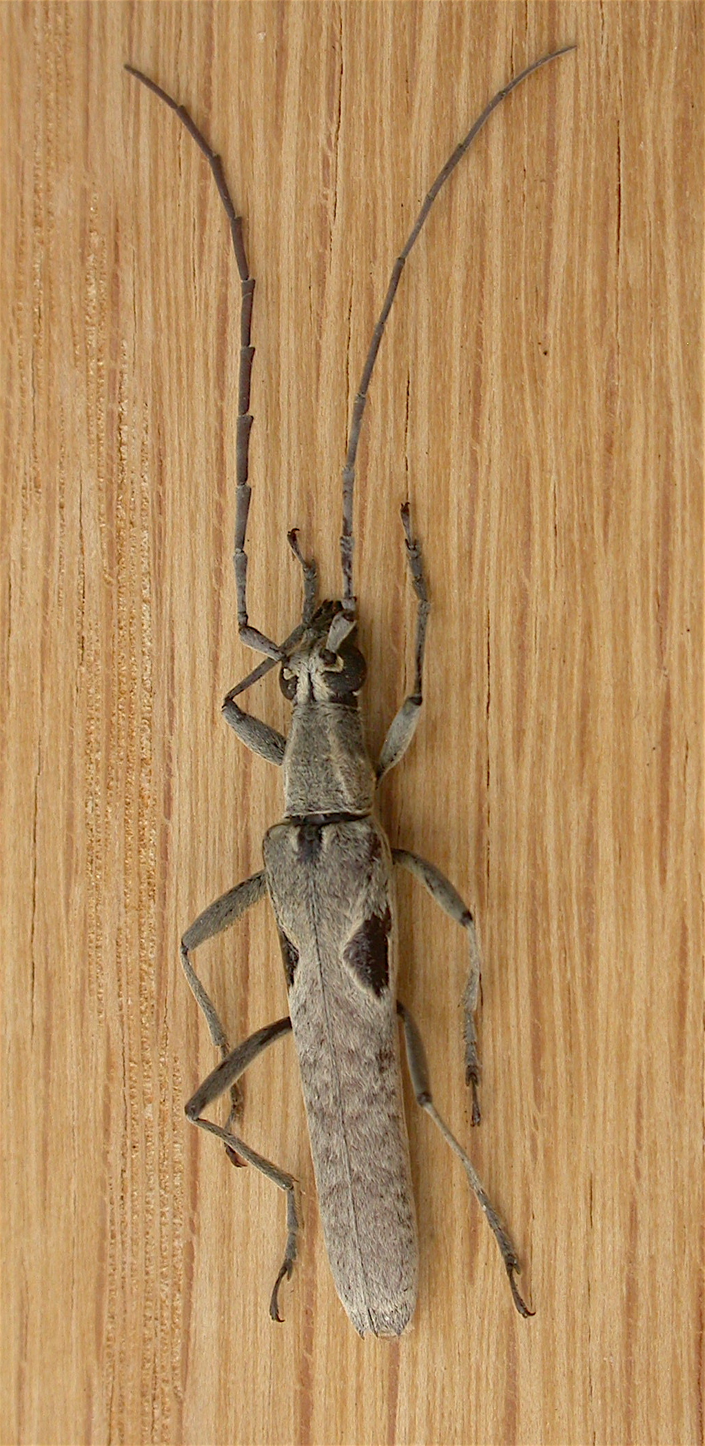 Uracanthus triangularis Thongphak & Wang, 2007, to MV light, Aranda, ACT, 5/6 December 2008